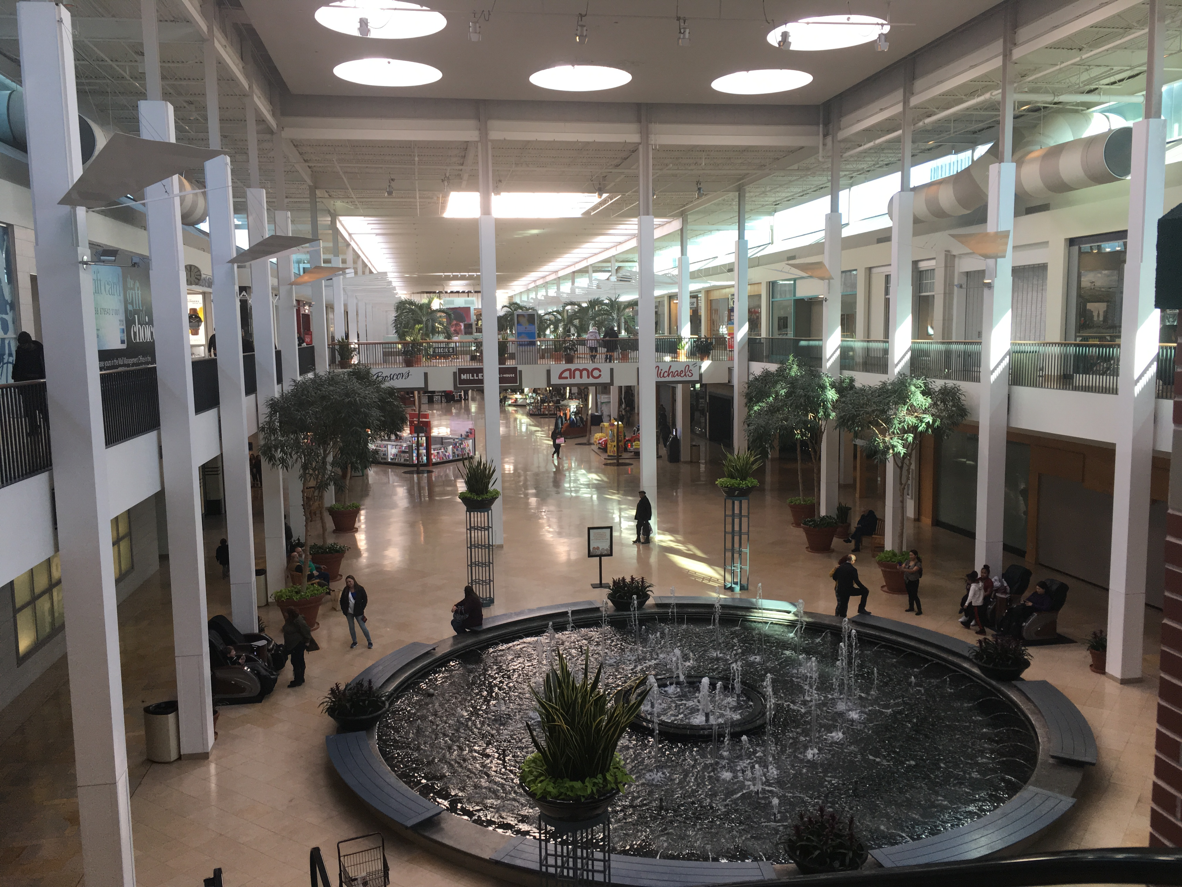 A view of the Plymouth Meeting Mall in Plymouth Meeting, Pennsylvania from the second floor near Burlington